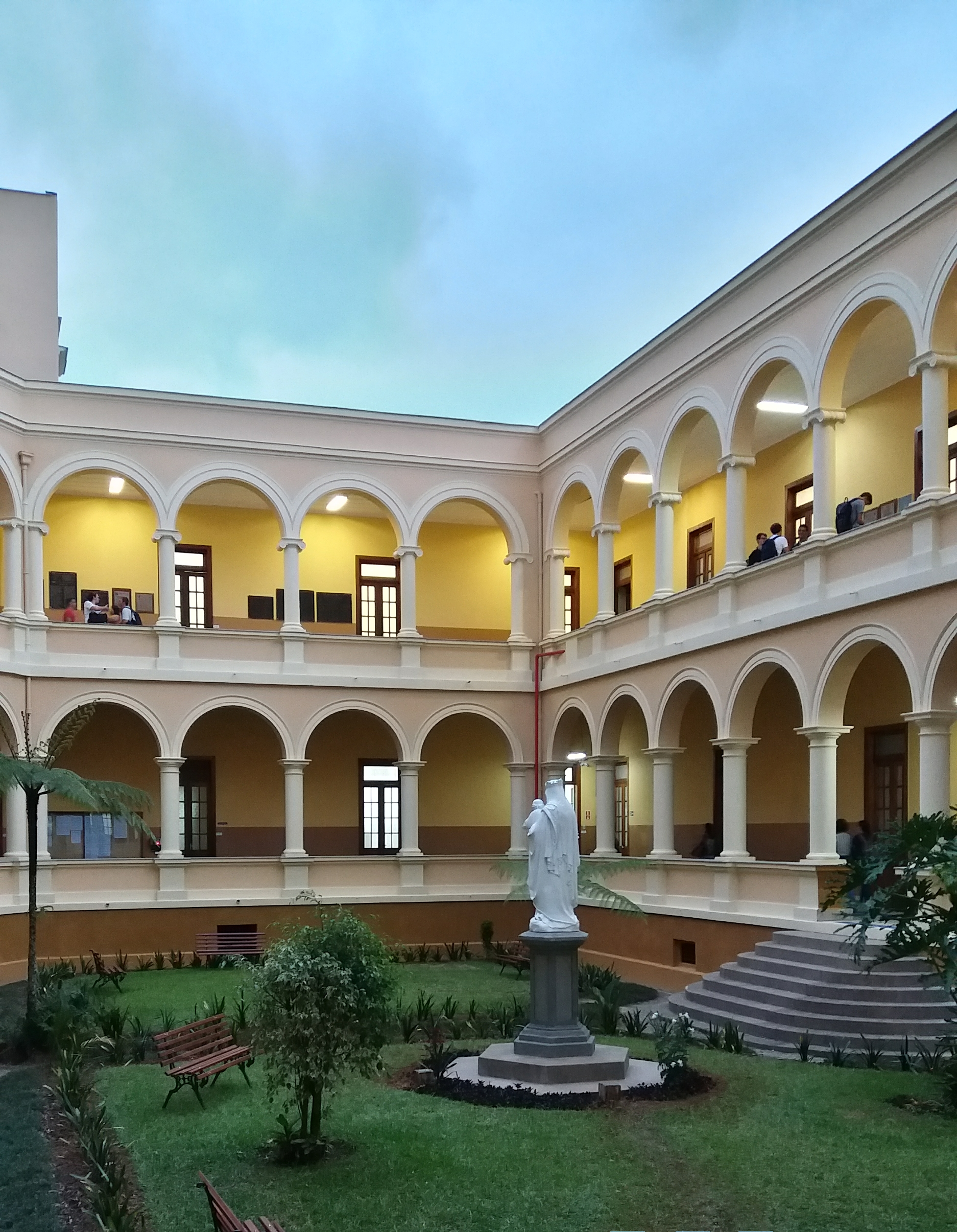 Garden in the Catholic University of Petrópolis complex.